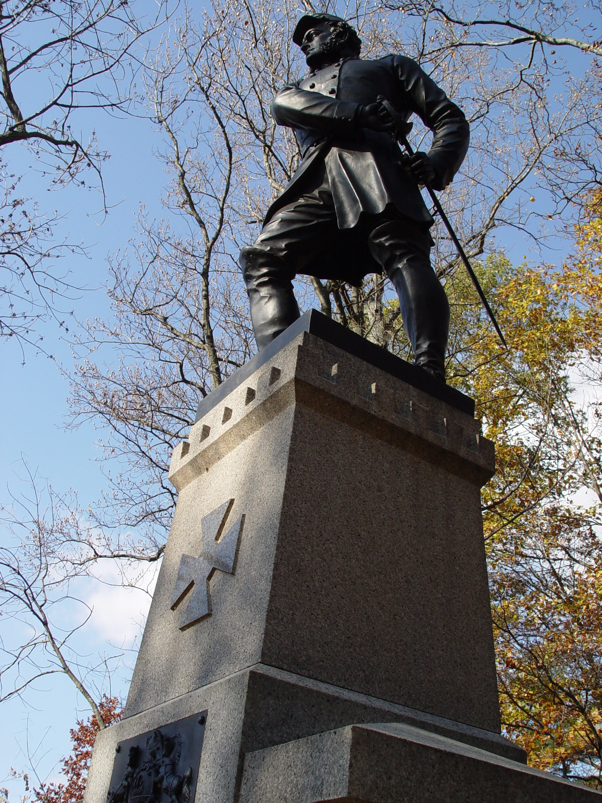 Statue of Col. Strong Vincent on 83rd Penn VI Monument, Little Round Top, Gettysburg, PA, USA